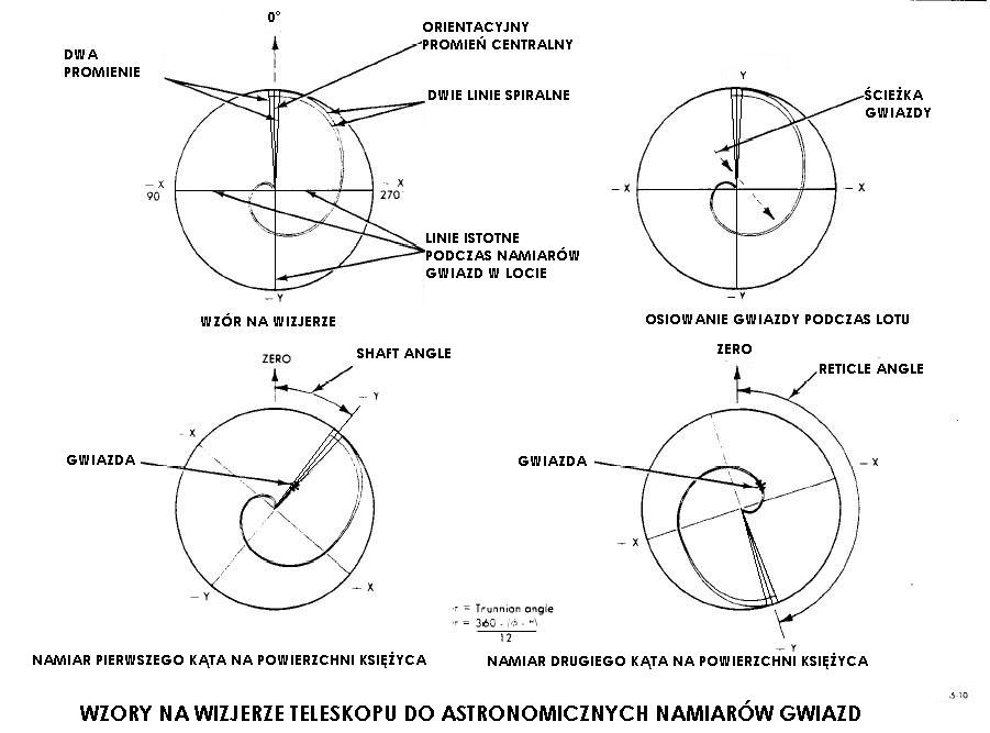 Reticle pattern on AOT when star measurement, in flight and on the lunar surface.